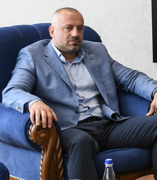 Milan Radoičić, Kosovo Serb businessman and politician